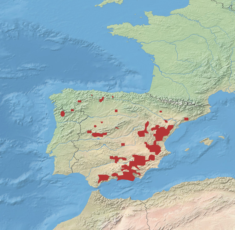 The Distribution of the IUCN. =